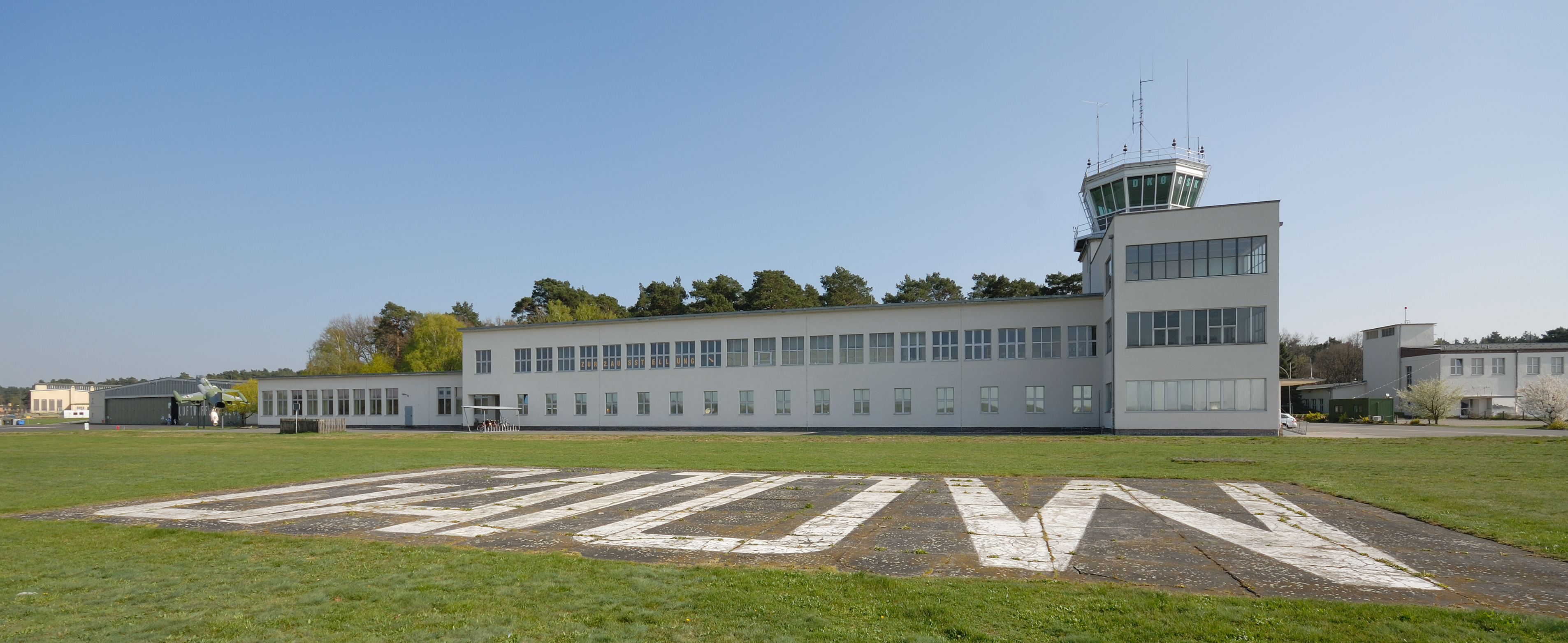 Air Force Museum of the Bundeswehr, Berlin-Gatow: "GATOW" sign on airfield. (It is easily readable on Google Maps.)